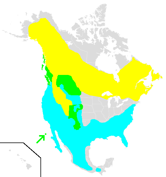 A range map of the Ruby-crowned Kinglet (Regulus calendula)